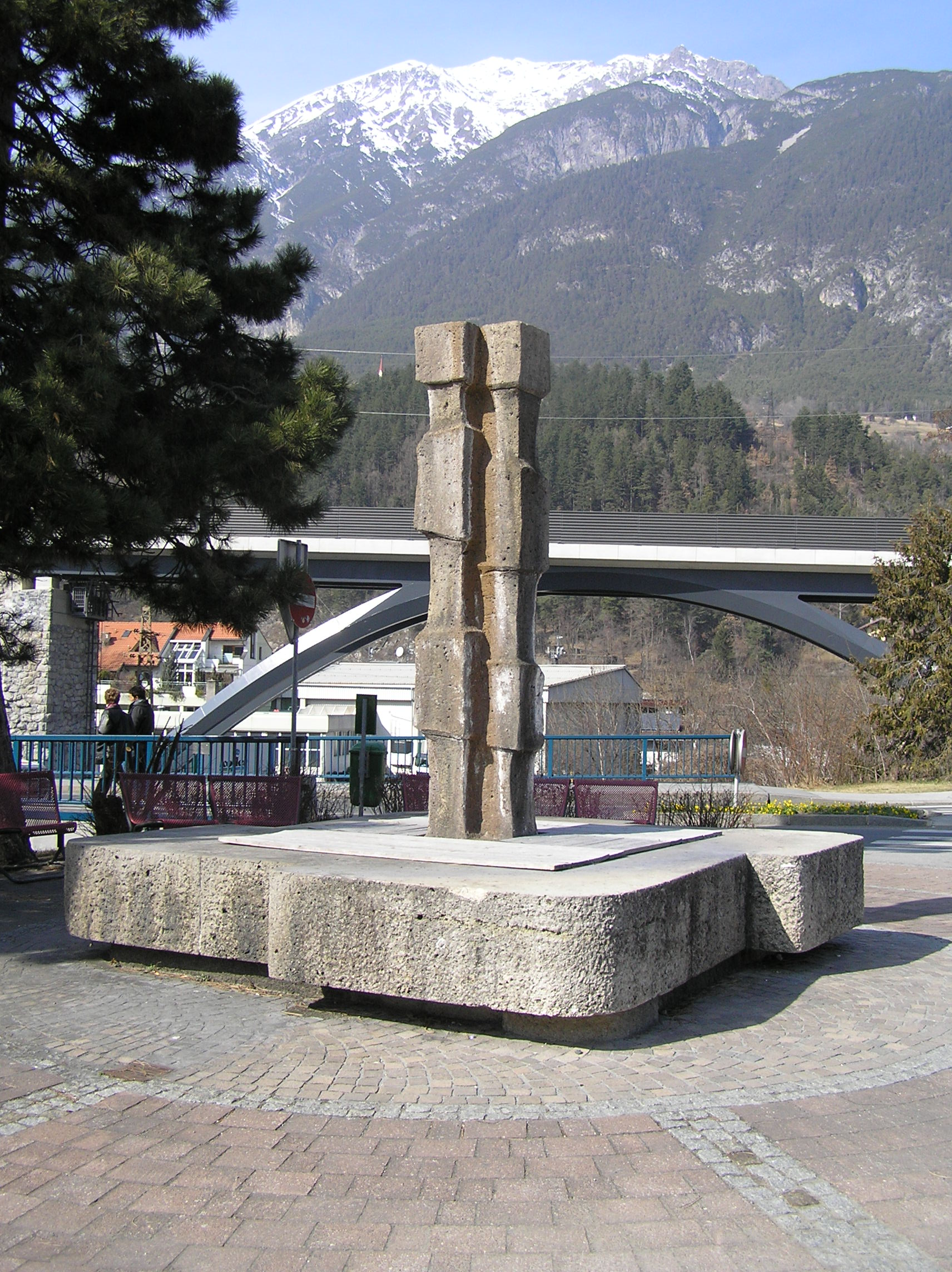 Sculpture in Landeck (Tyrol) This media shows the remarkable cultural object in the Austrian state of Tyrol listed by the Tyrolean Art Cadastre with the ID 24331. (on tirisMaps, pdf, more images on Commons, Wikidata)